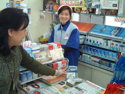 TaiwanMoney contactless smart card in use, a combined credit card, electronic money and public transport payment card. It is in use in Hi-Life stores in Kaohsiung City.